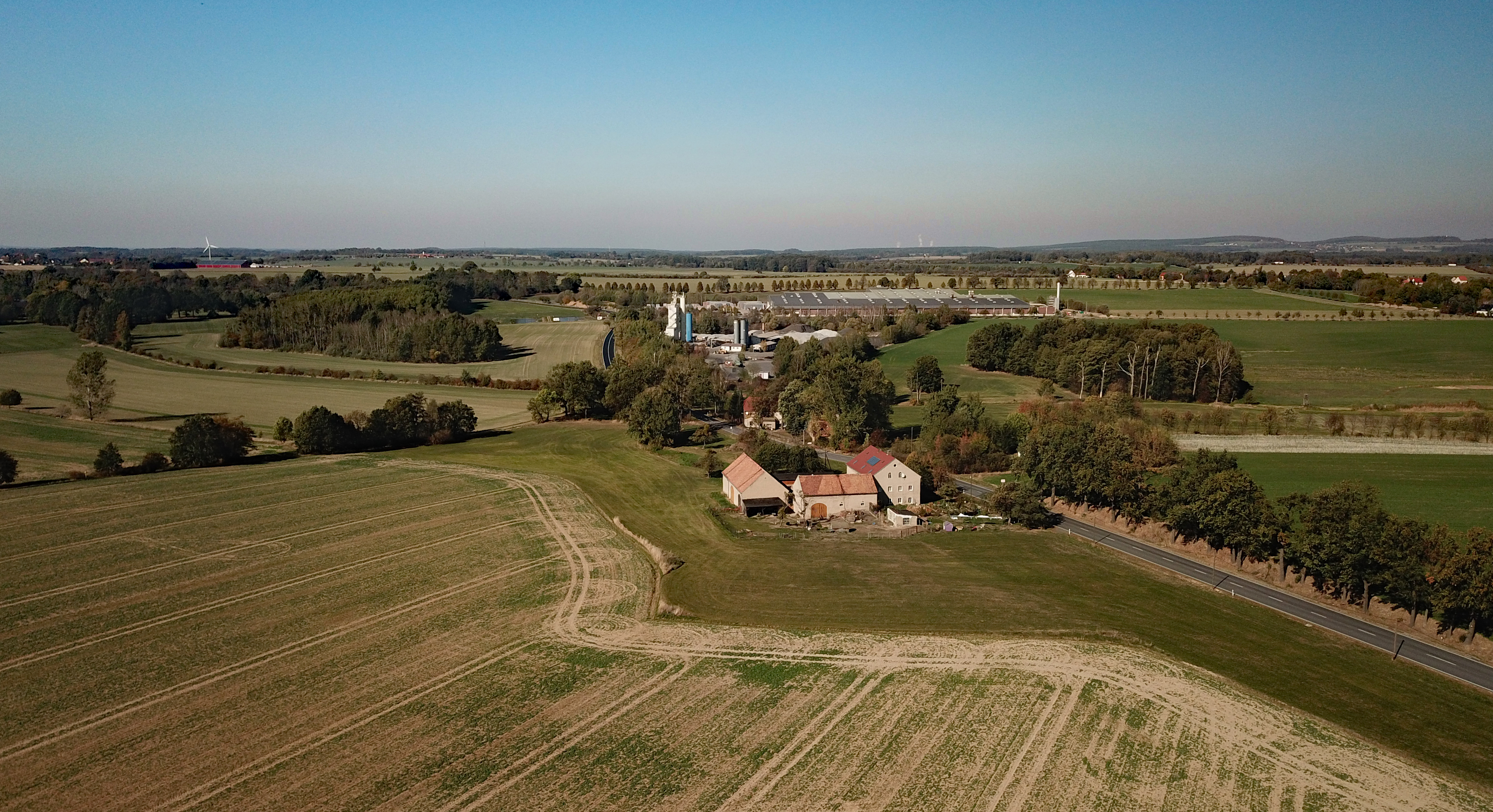 Rotkretscham (Vierkirchen, Saxony, Germany) Hornjoserbsce: Powětrowy wobraz Čerwjeneje korčmy pola Wósporka